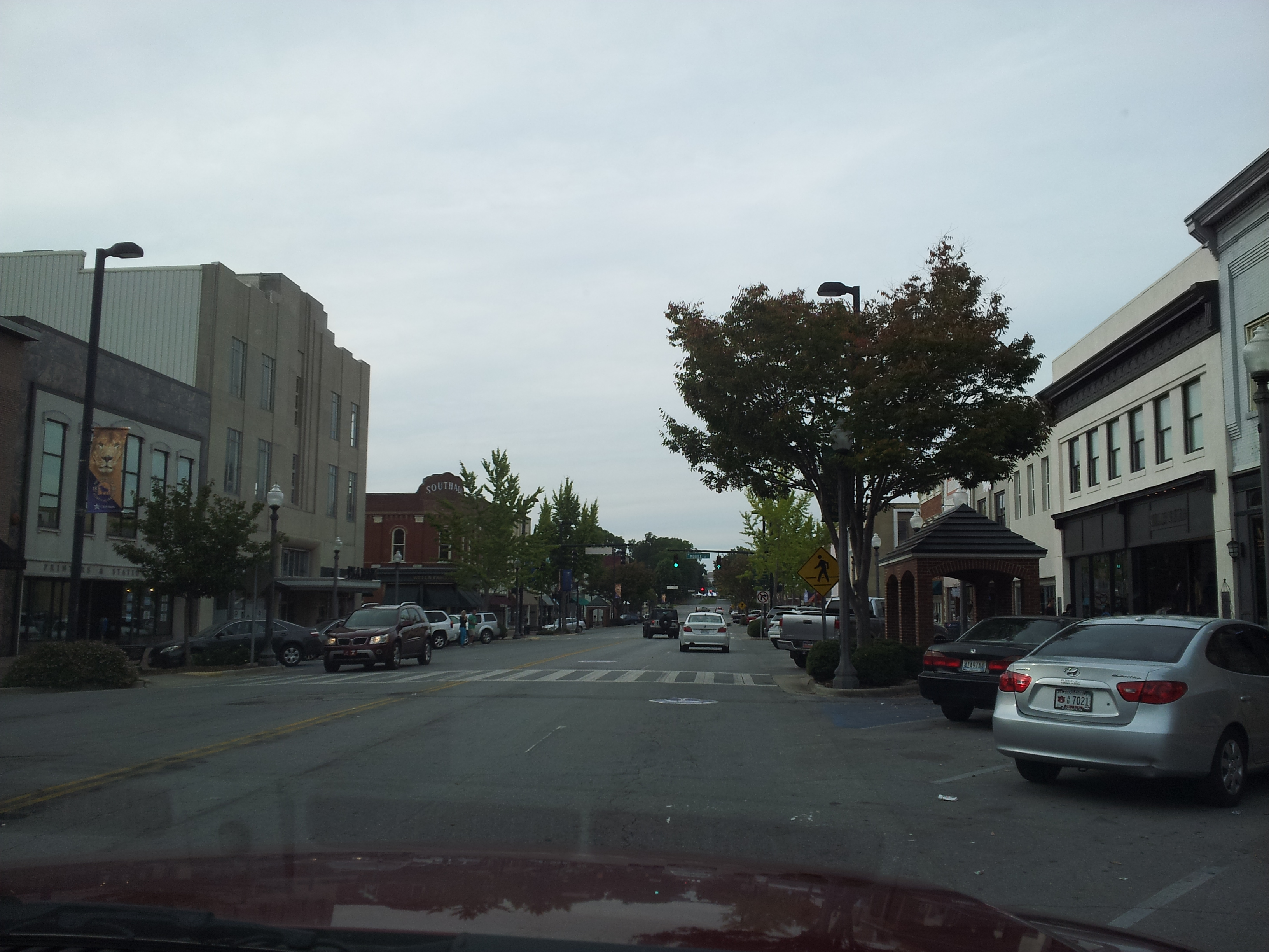 Downtown Florence Historic District